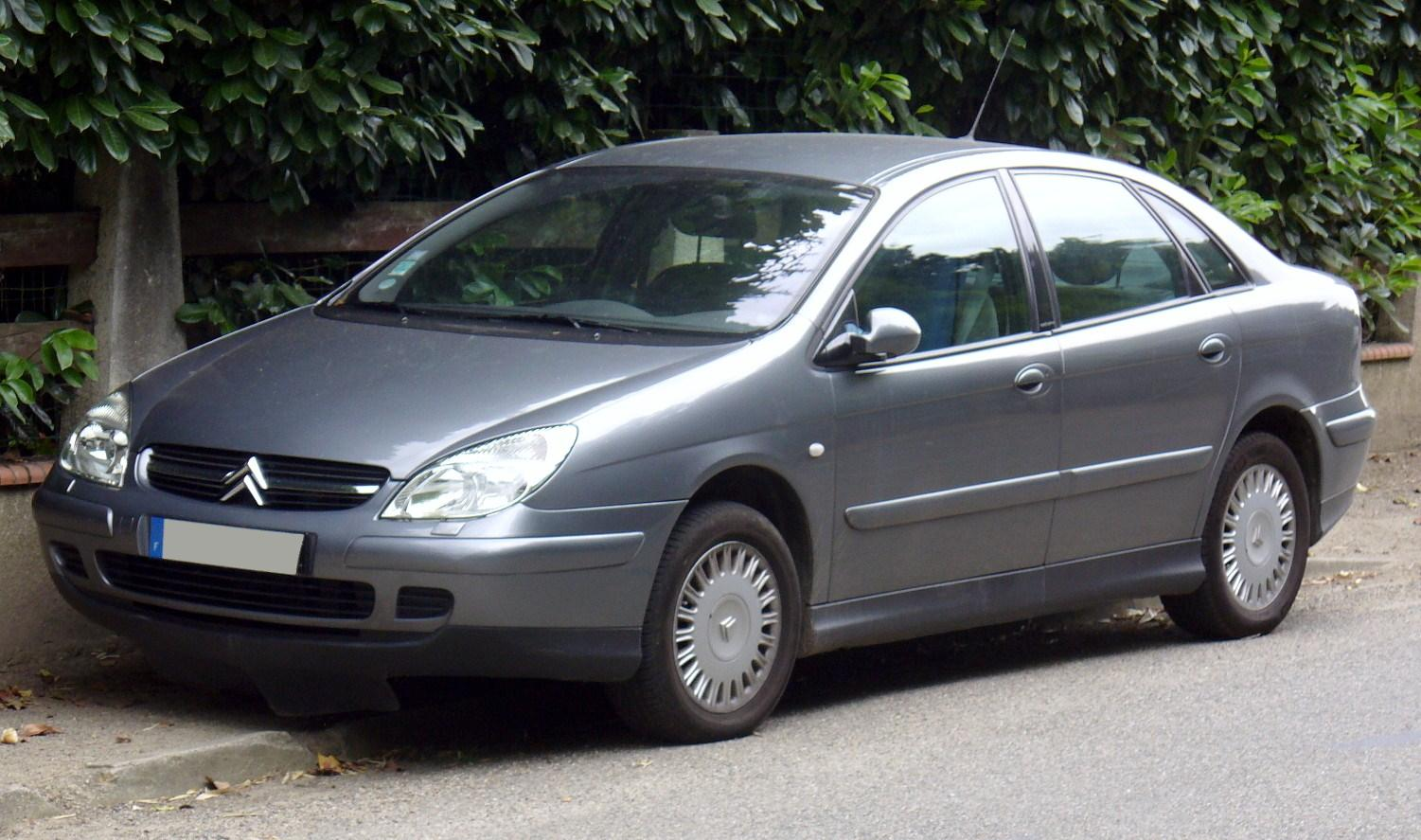 Citroën C5